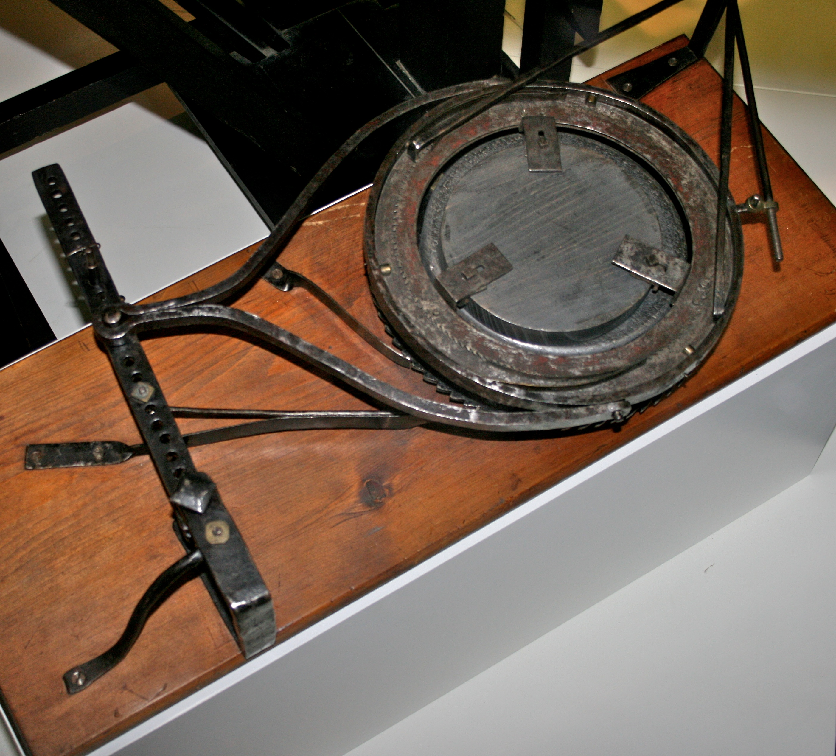 William Herschel's Mirror-polisher, C. 1790. On display in the Science Museum, London.